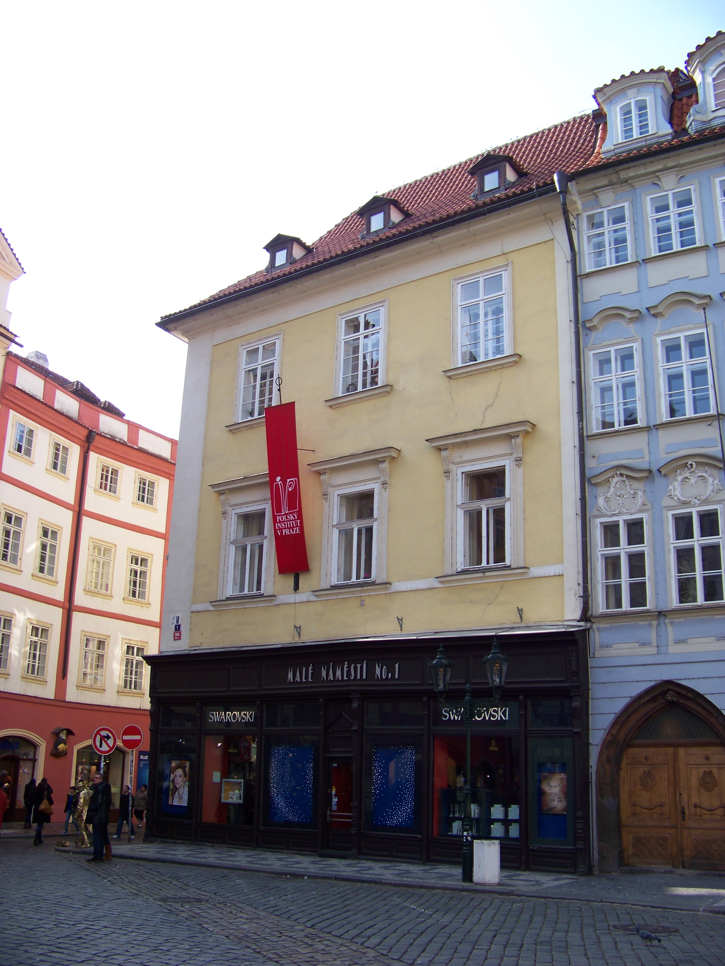 Prague-Old Town, Czech Republic. Malé náměstí 144/1, Karlova 144/27.